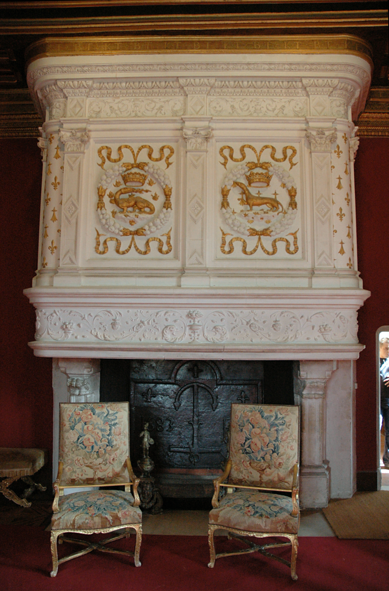 Château de Chenonceau, fireplace in the Salon de Louis XIV